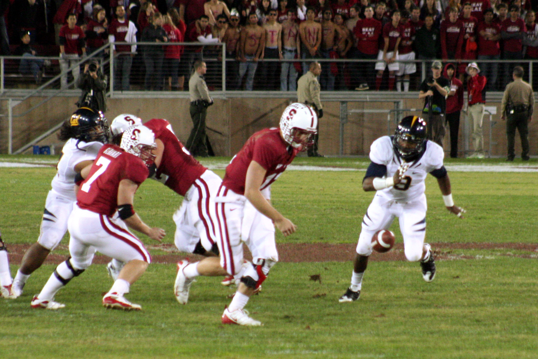 Stanford Cardinal quarterback Andrew Luck (#12) fumbles the ball during the 2009 Big Game. The California Golden Bears won 34-28.